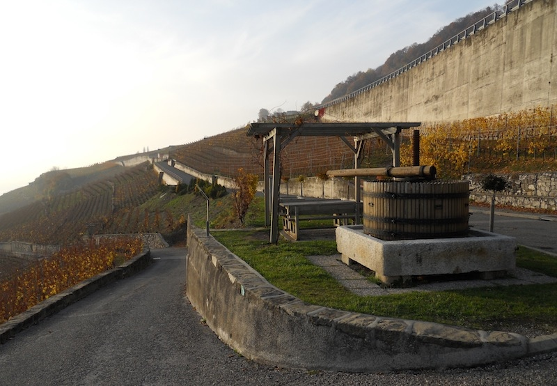 antique wine press in the Douro Valley